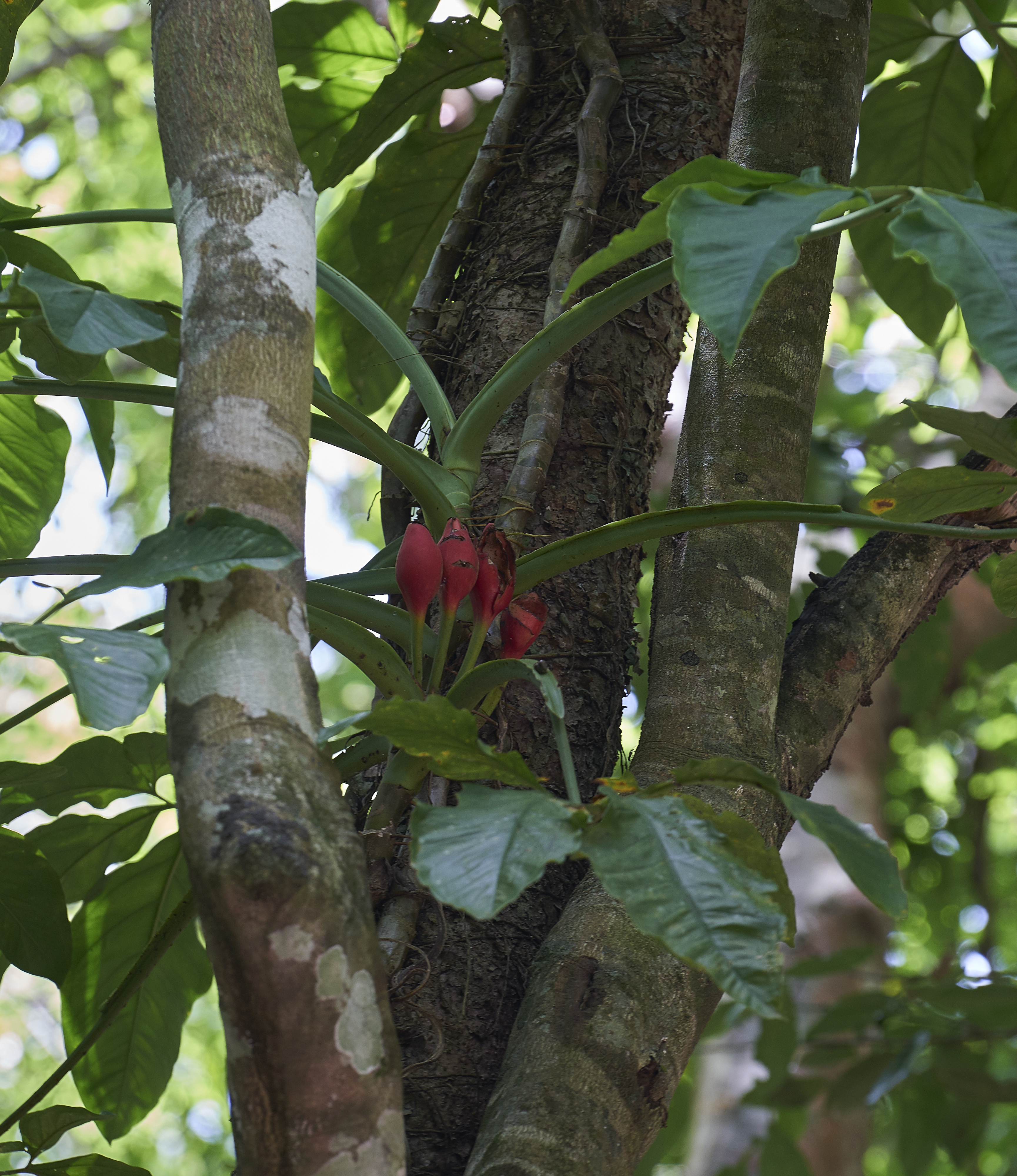 Syngonium podophyllum at Xunantunich, Belize The making of this document was supported by the Community-Budget of Wikimedia Germany.